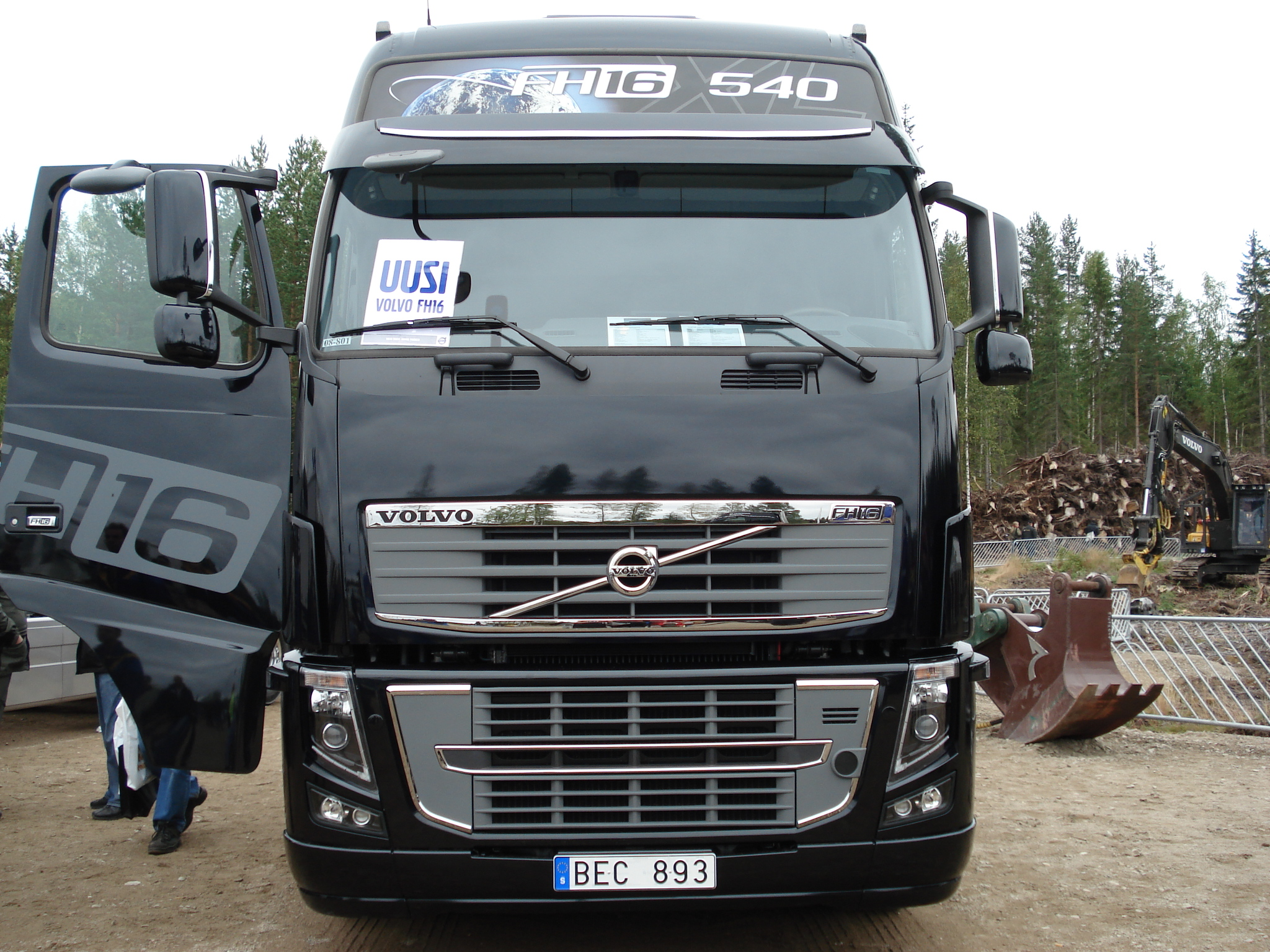 Volvo FH16